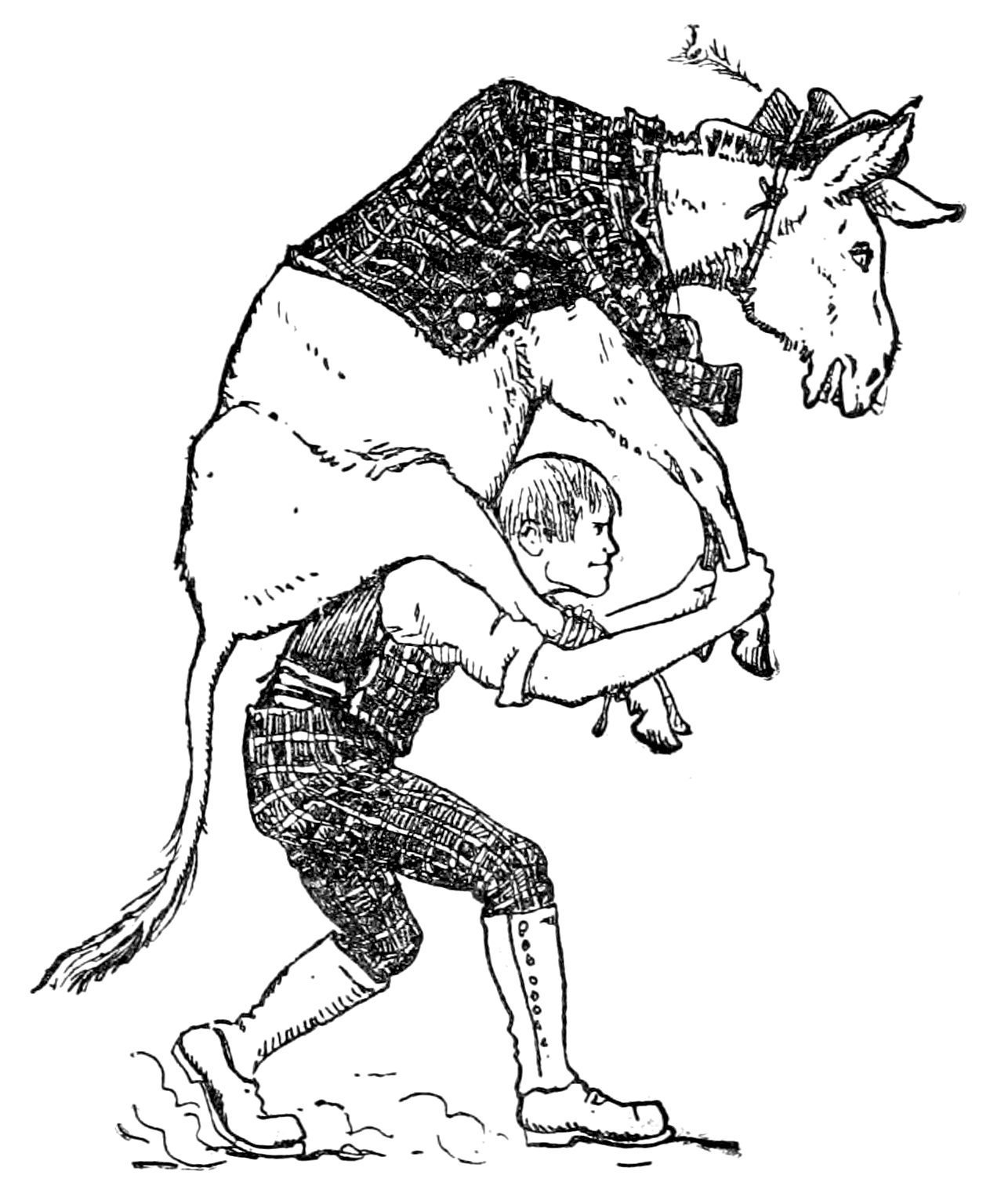 Lazy Jack went once more, and hired himself to a cattle-keeper, who gave him a donkey for his trouble. Jack found it hard to hoist the donkey on his shoulders, but at last he did it, and began walking slowly home with his prize. Now it happened that in the course of his journey there lived a rich man with his only daughter, a beautiful girl, but deaf and dumb. Now she had never laughed in her life, and the doctors said she would never speak till somebody made her laugh. This young lady happened to be looking out of the window when Jack was passing with the donkey on his shoulders, with the legs sticking up in the air, and the sight was so comical and strange that she burst out into a great fit of laughter, and immediately recovered her speech and hearing. Her father was overjoyed, and fulfilled his promise by marrying her to Lazy Jack, who was thus made a rich gentleman. They lived in a large house, and Jack's mother lived with them in great happiness until she died.